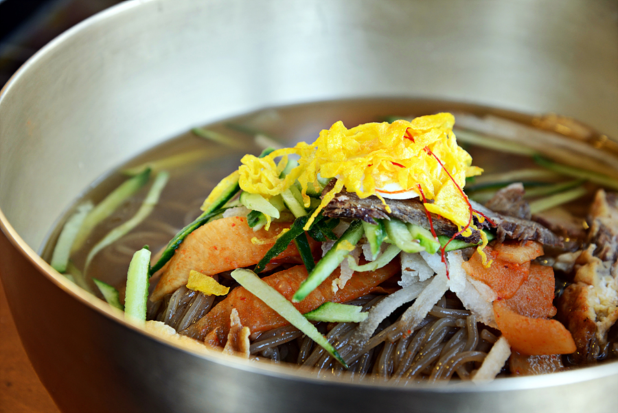 Jinju naengmyeon (cold noodles)